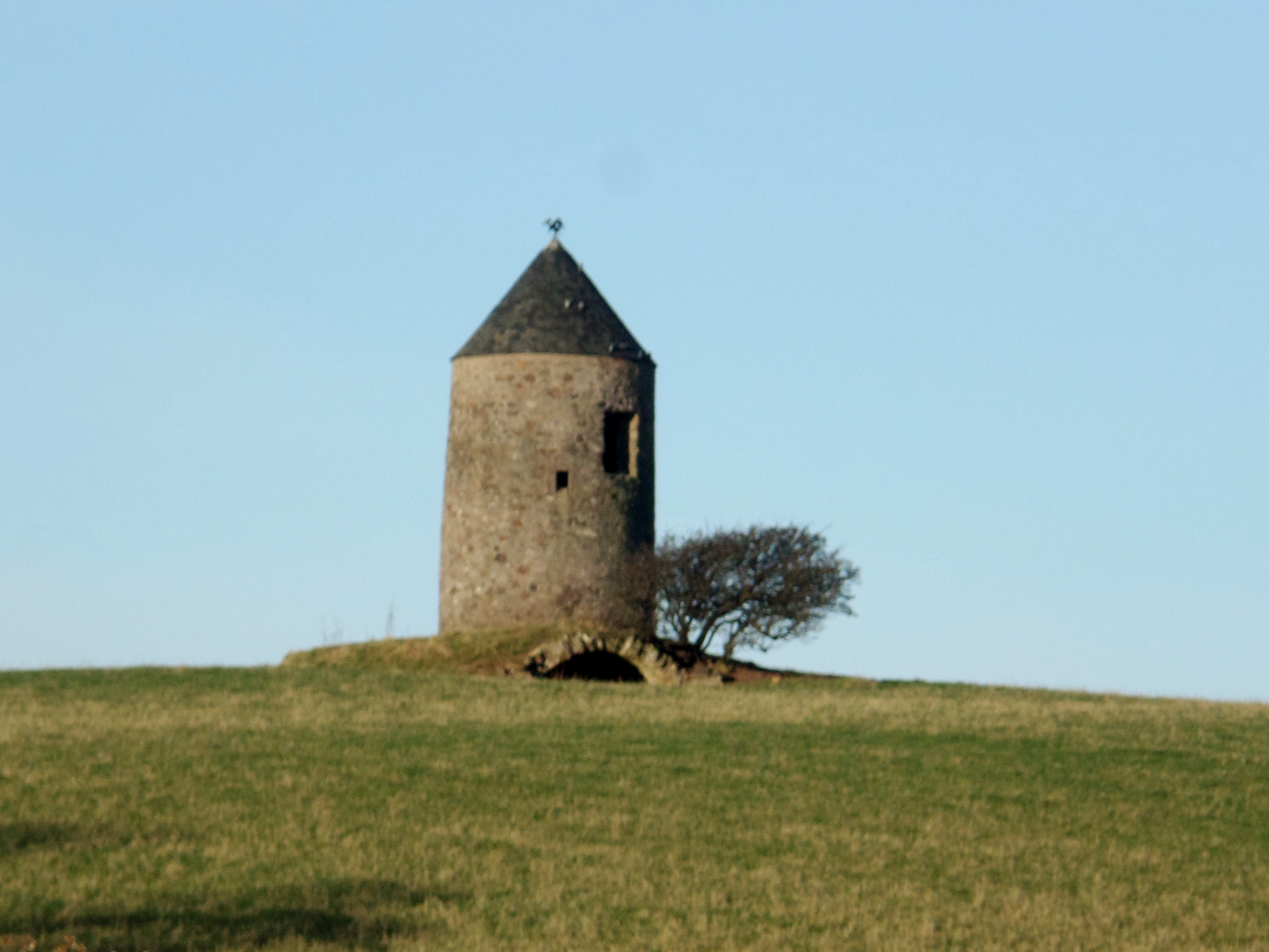 Monkton Vaulted Tower Windmill, South Ayrshire, Scotland. View from the south